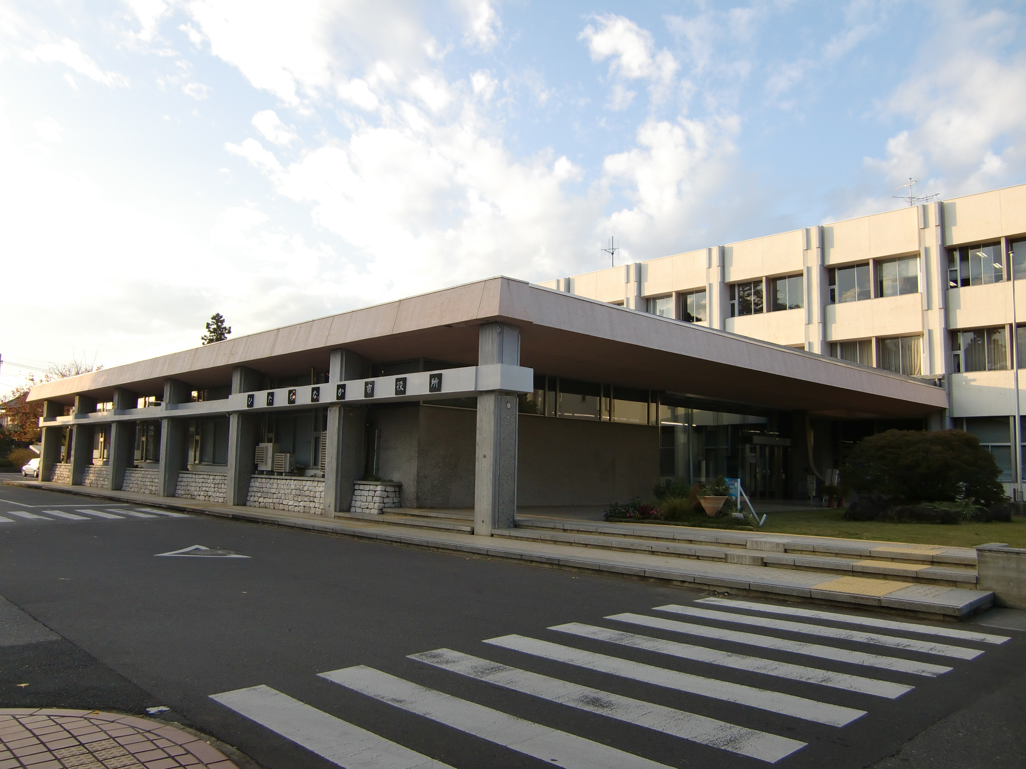 Hitachinaka Town Hall